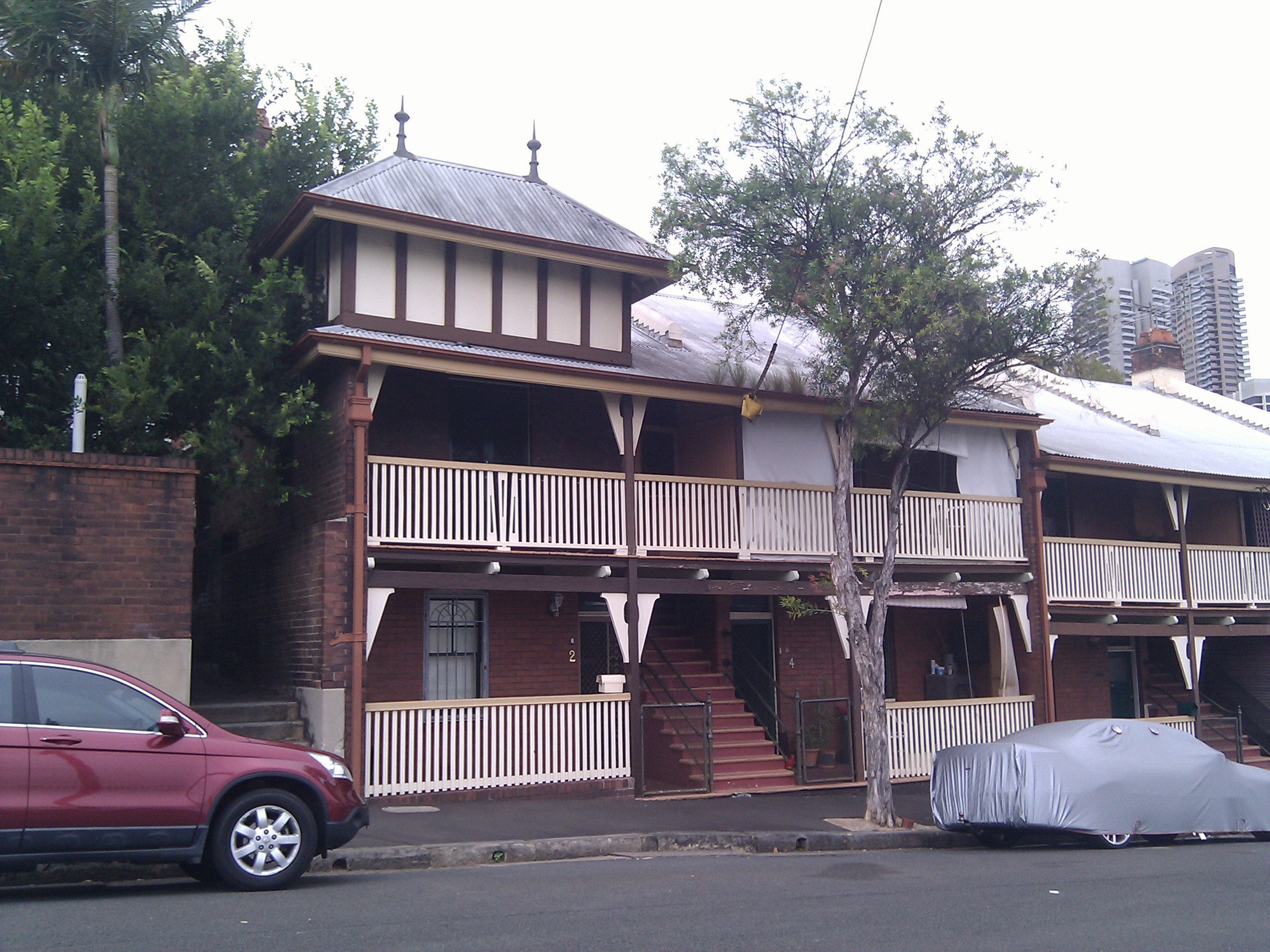 High Street, Millers Point, Sydney, NSW 2000, Australia